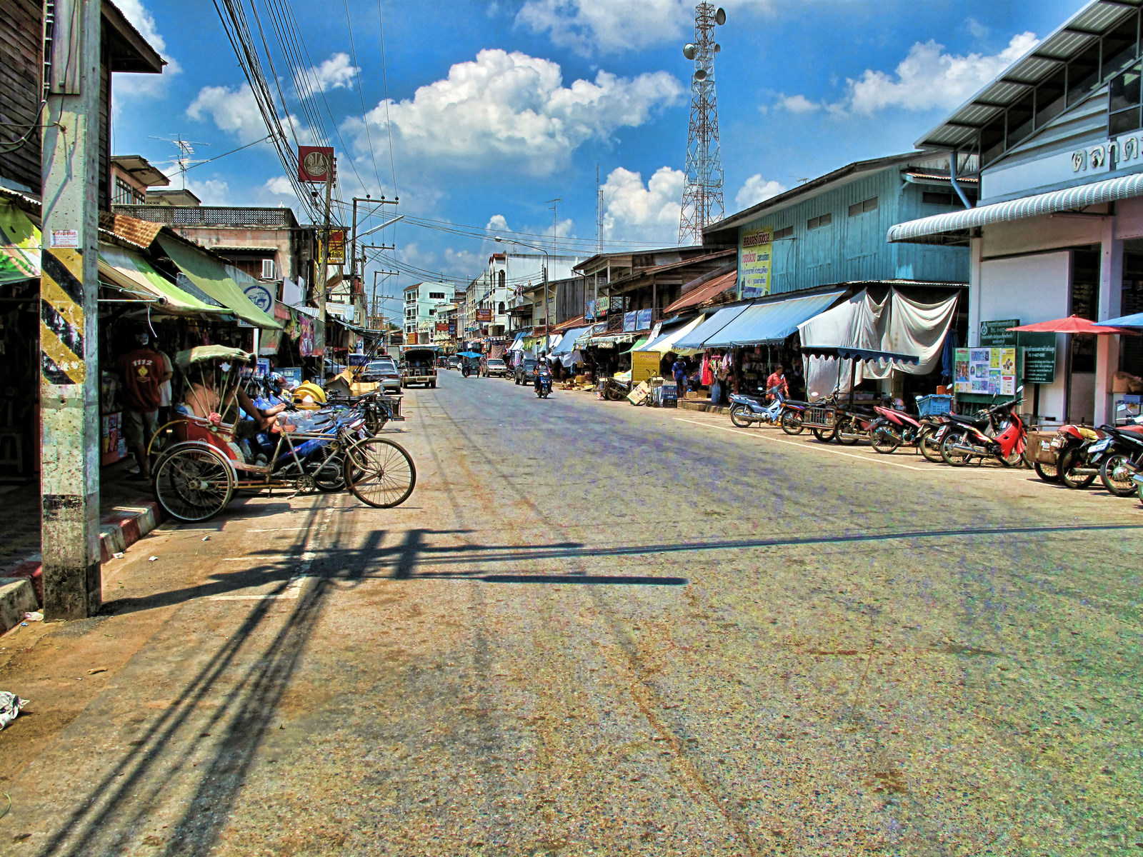 Amphoe Non-Sung 30160, Nakhon Ratchasima Province, Thailand, Main Road